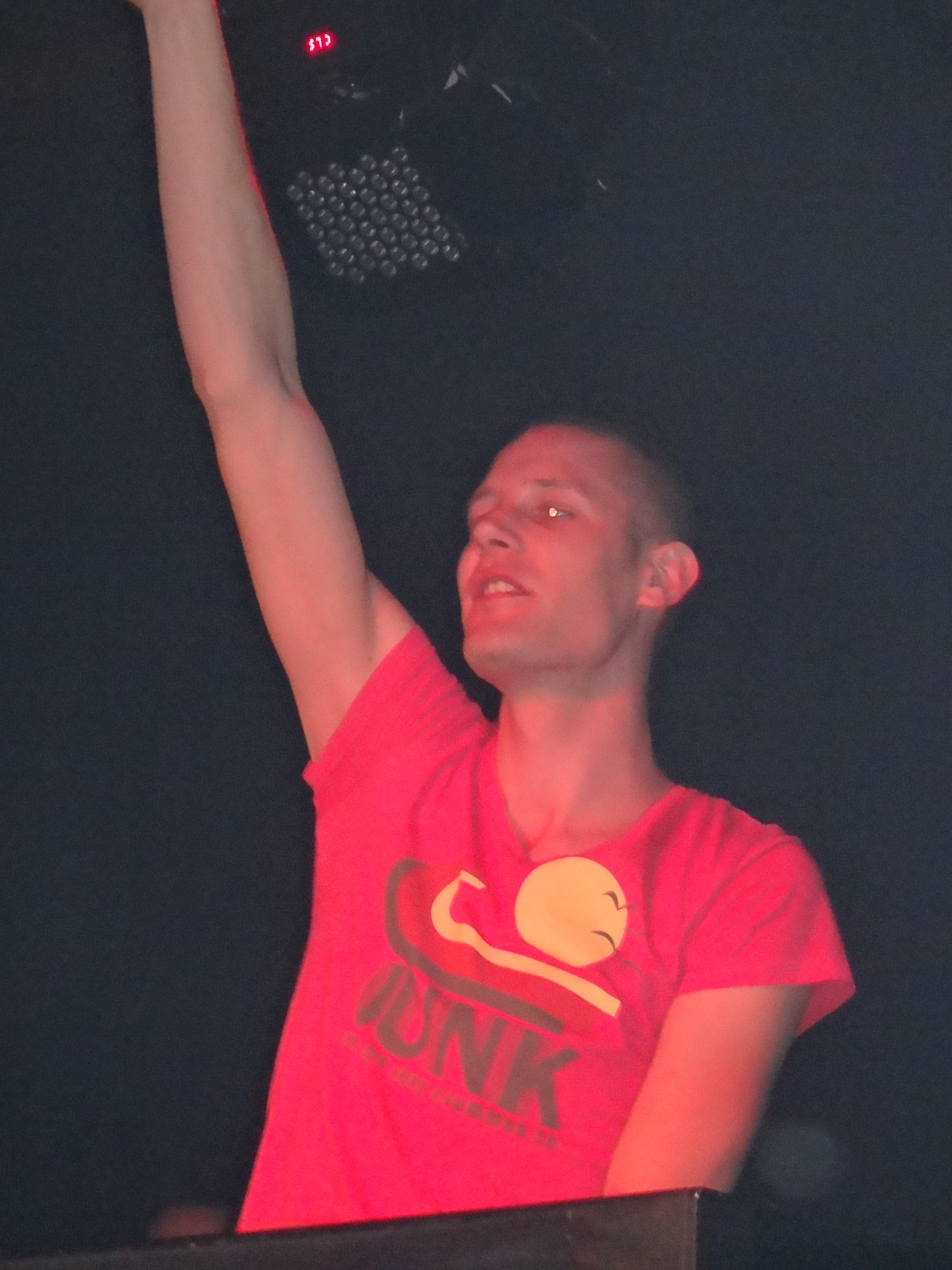 Dutch Hardstyle artist Frontliner (Barry Drooger) playing at Kolingsborg in Stockholm as part of the Scantraxx 10 years tour.